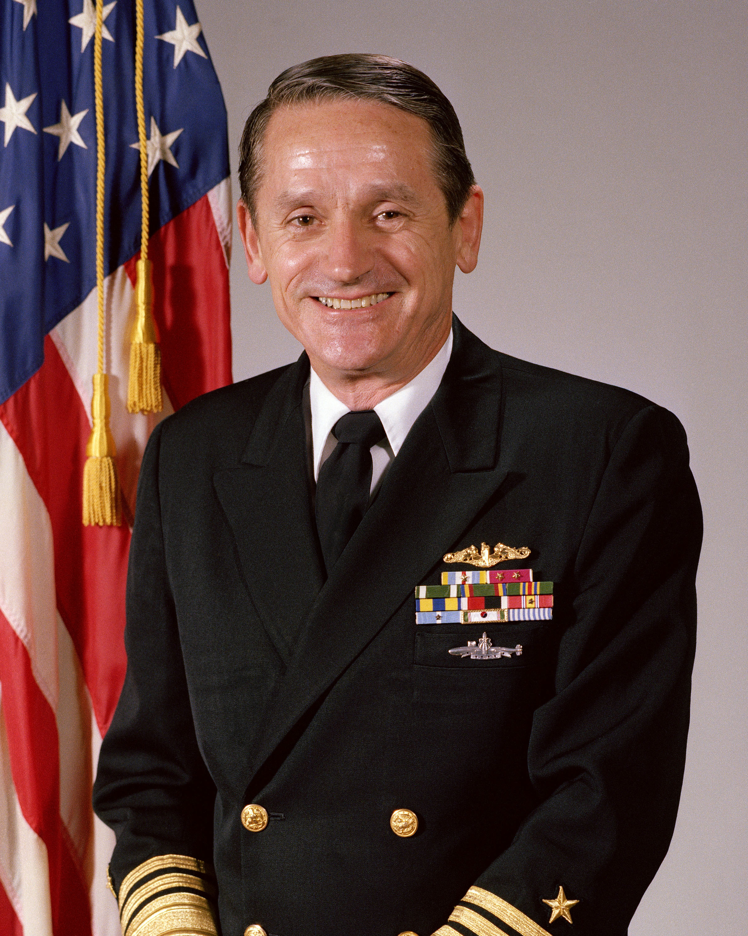 Vice Admiral Edward A. Burkhalter, USN (uncovered), 12/14/1983